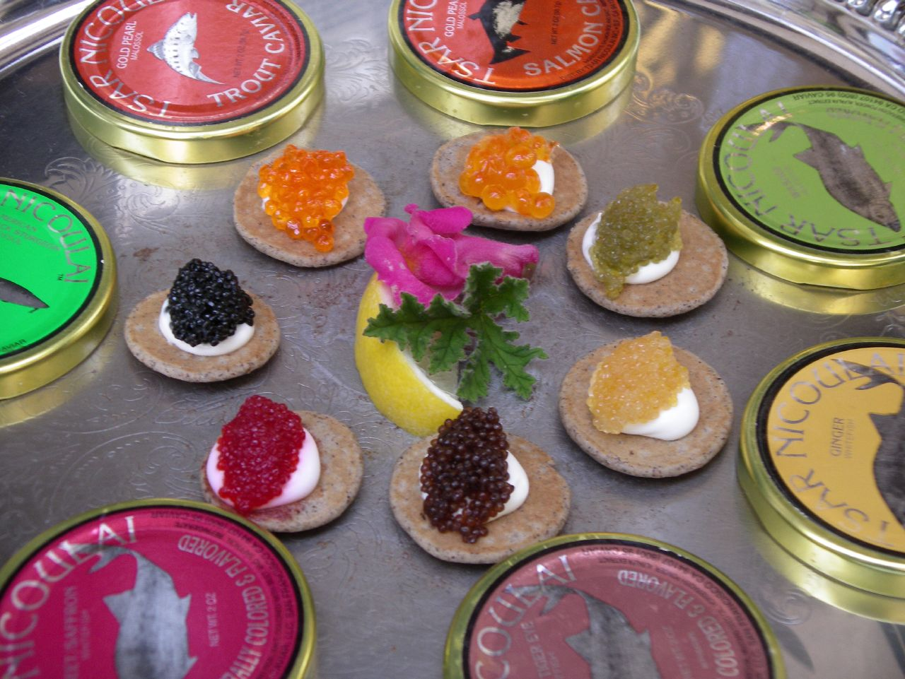 Seven different types of fish roe